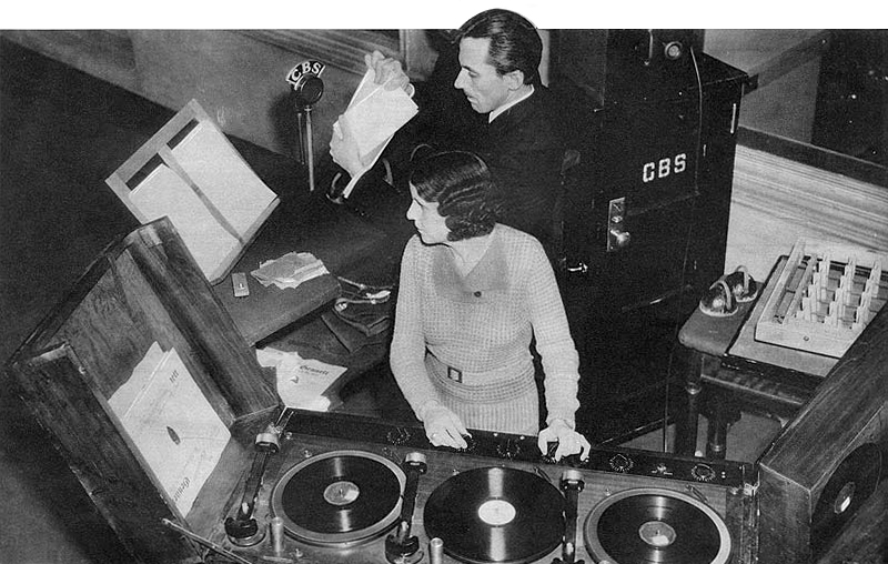 Photograph of Columbia Broadcasting System sound effects chief Ora Daigle Nichols (foreground) assisted by George McDonnell, at work on the CBS radio program The March of Time